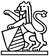 Logo Canton of Zurich, Switzerland as used by the Staatskanzlei of the canton of Zurich